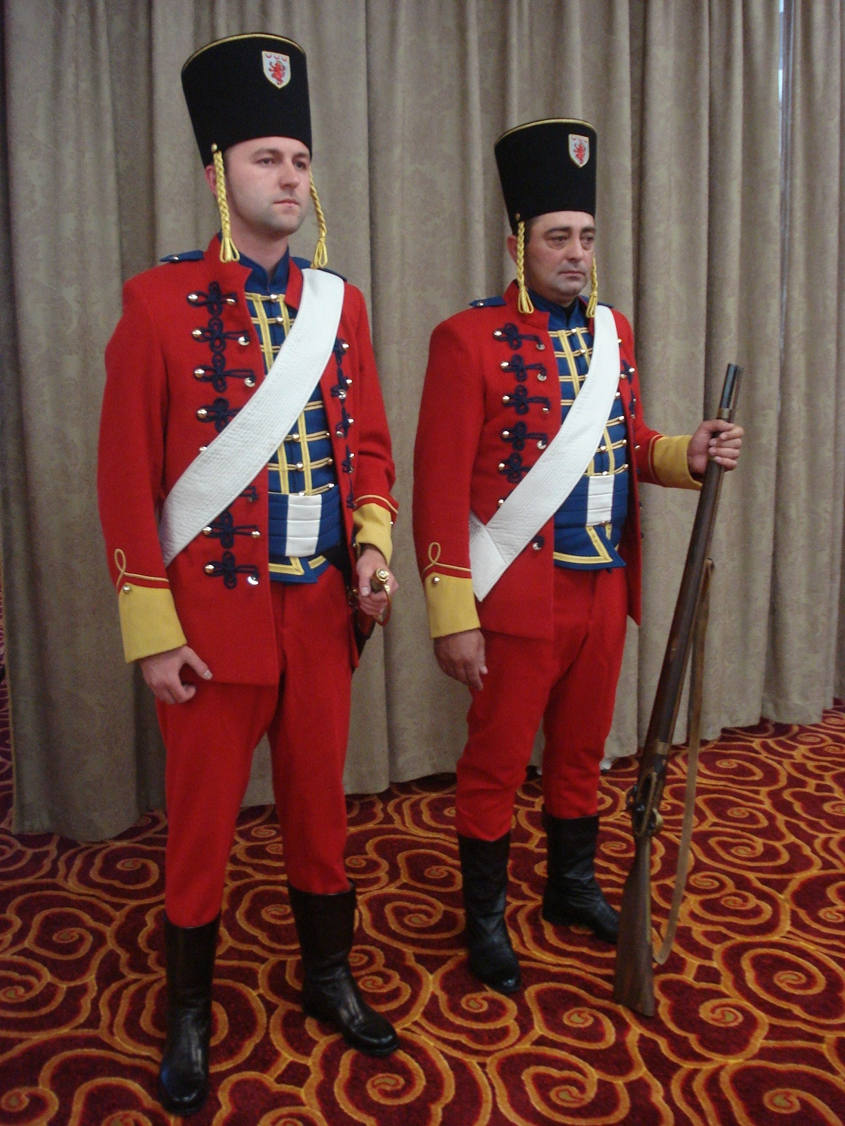 18th century Border guards of Otočac regiment (Croatia)